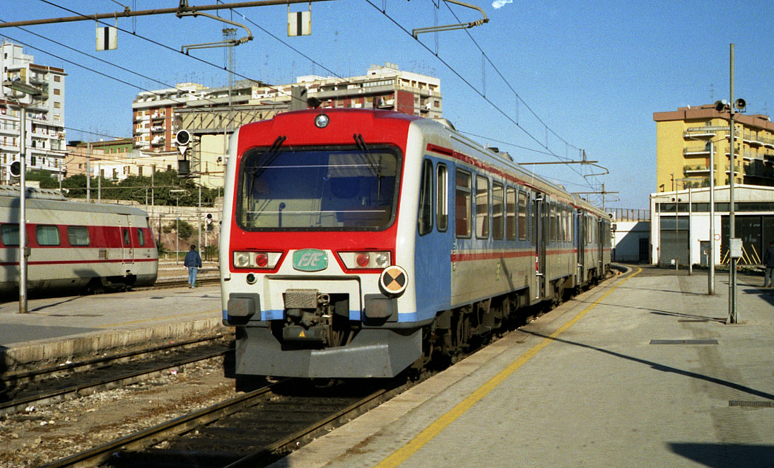 FSE Train Ad87 at Taranto station with a train to Martina Franca in 2002.